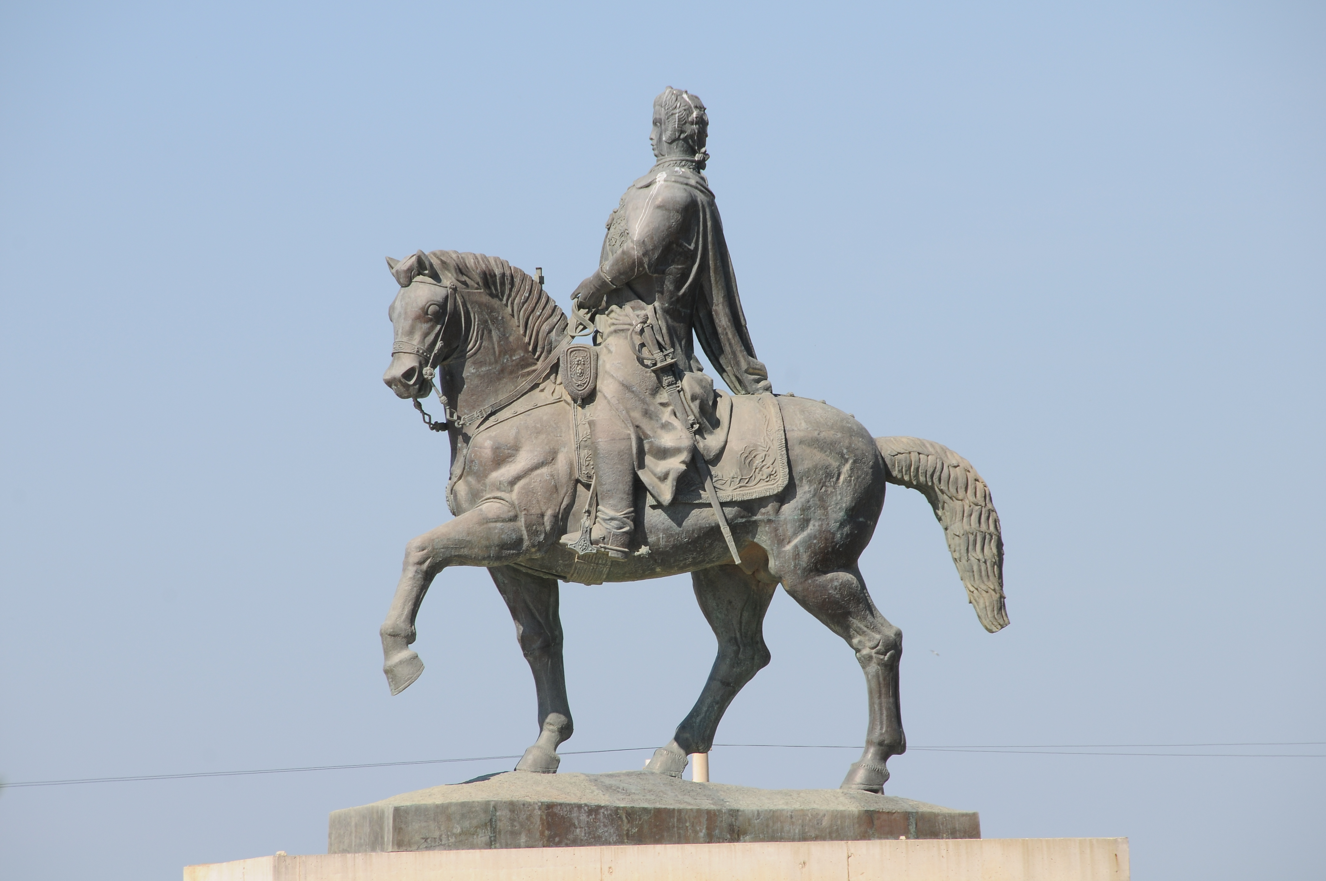 Salvador Barata Feyo, Statue of John VI of Portugal in Nevogilde, Porto, Portugal.